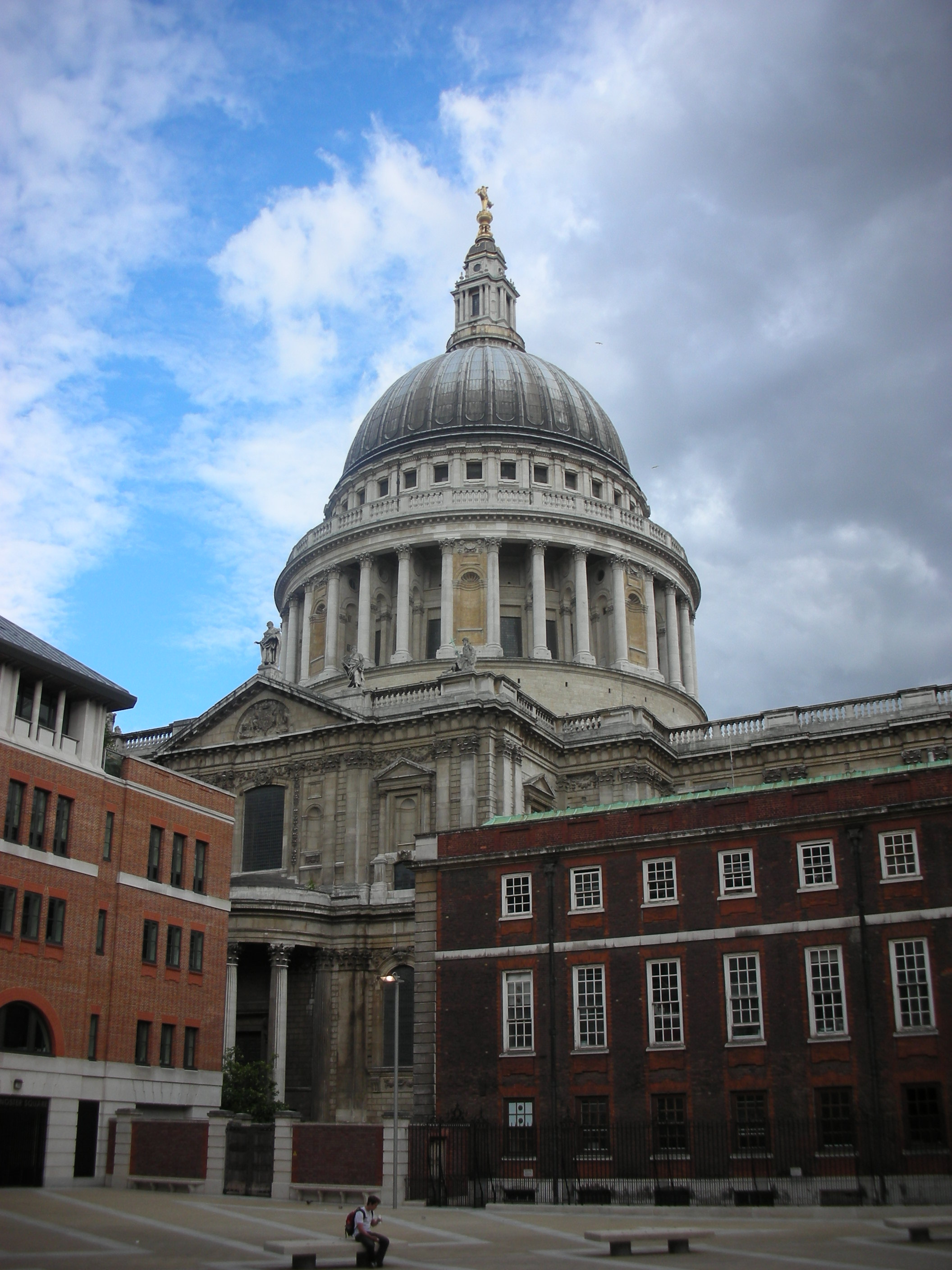 St Paul's Cathedral Dome in London.